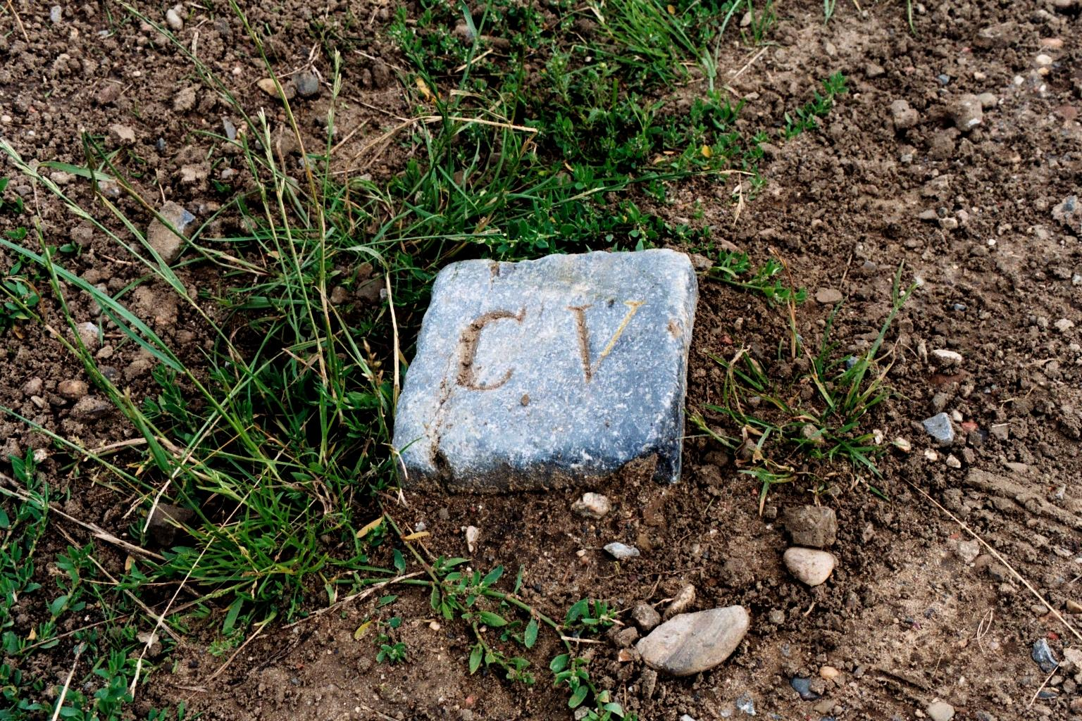 Keywords : SNCV, vicinal railways, rail, tram, boundary stone, Zichem, Belgium